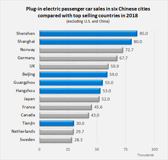 Comparison of plug-in electric passenger car sales in 2018 between Chinese cities and top selling countries (excluding China and the U.S.) Sources: Chinese cities: Bloomberg NEF estimates European countries: ACEA Japan and Canada: EV-Sales